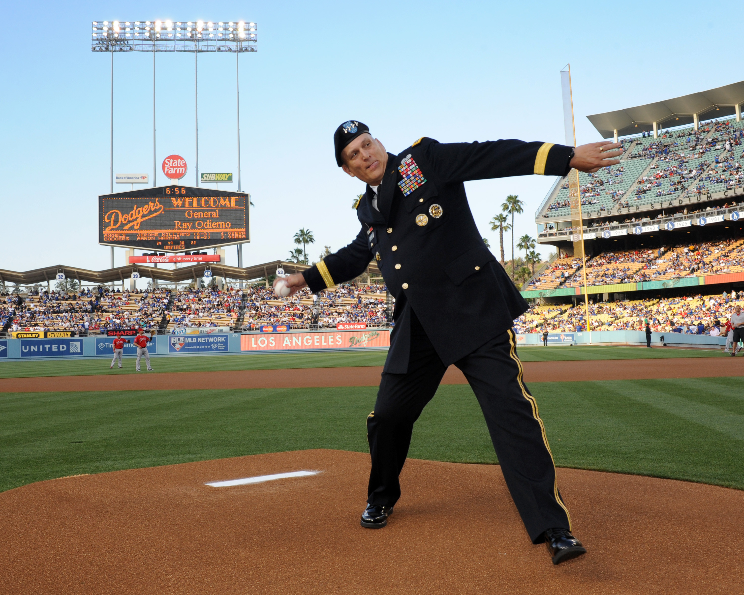 Gen. Raymond T. Odierno, chief of staff of the U.S. Army, throws a ceremonial first pitch at Dodger Stadium June 12, 2012 before the interleague game between the Los Angeles Dodgers and Los Angeles Angels of Anaheim. Odierno also led a special swearing-in ceremony for Army recruits on the field. (Photo by Juan Ocampo/Los Angeles Dodgers)